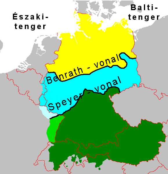 German dialects